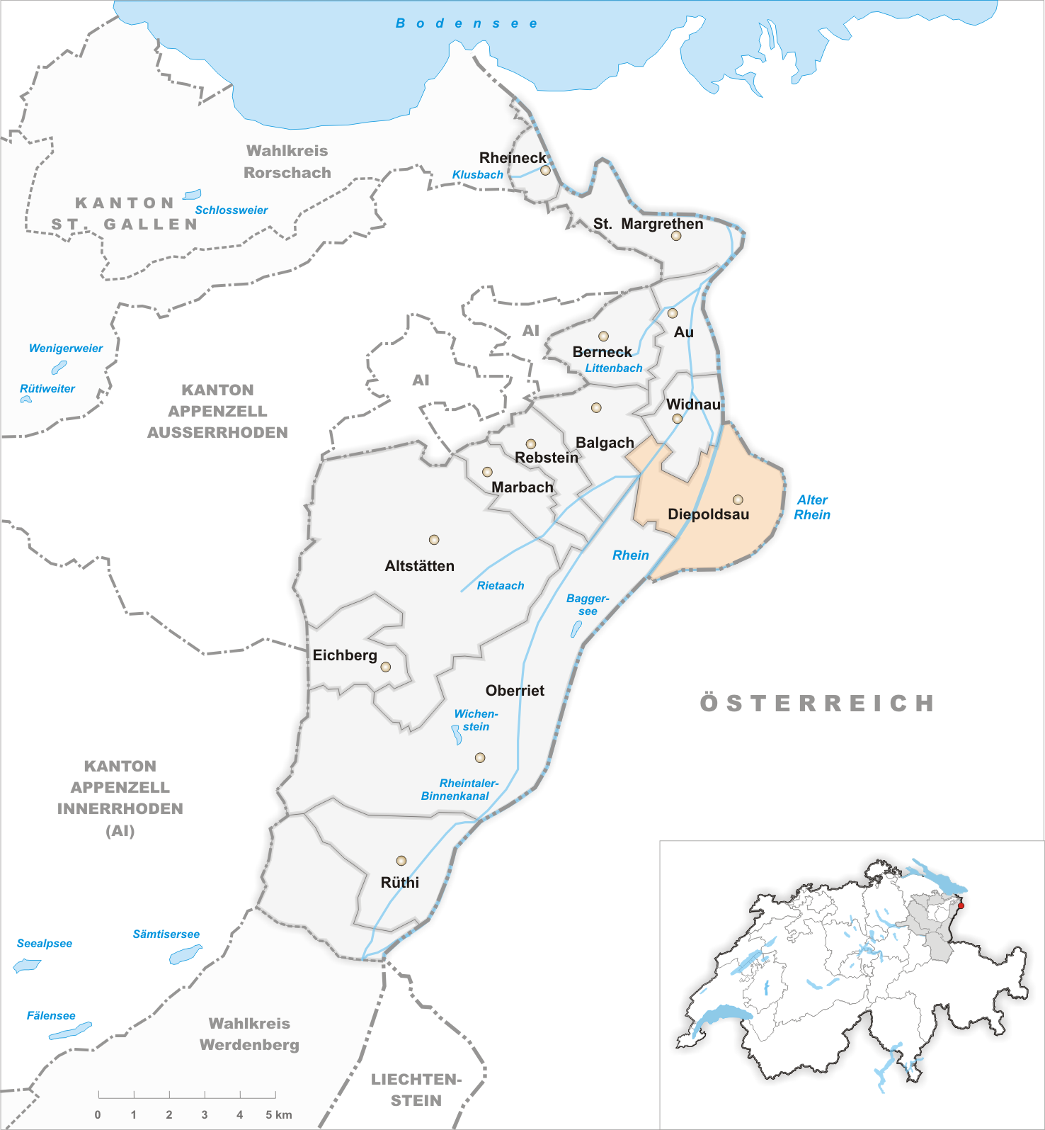 Municipality Diepoldsau